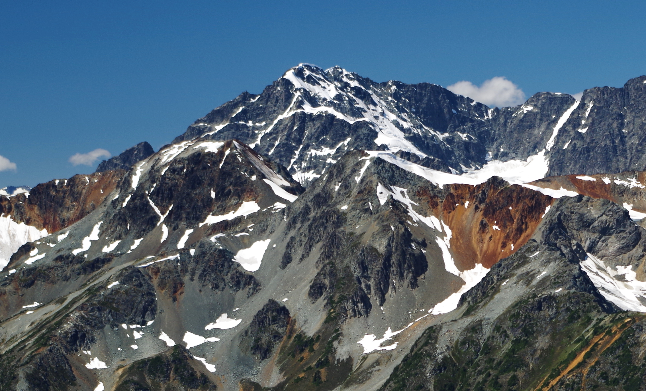 Mount Sampson in BC Canada seen from Grouty Peak